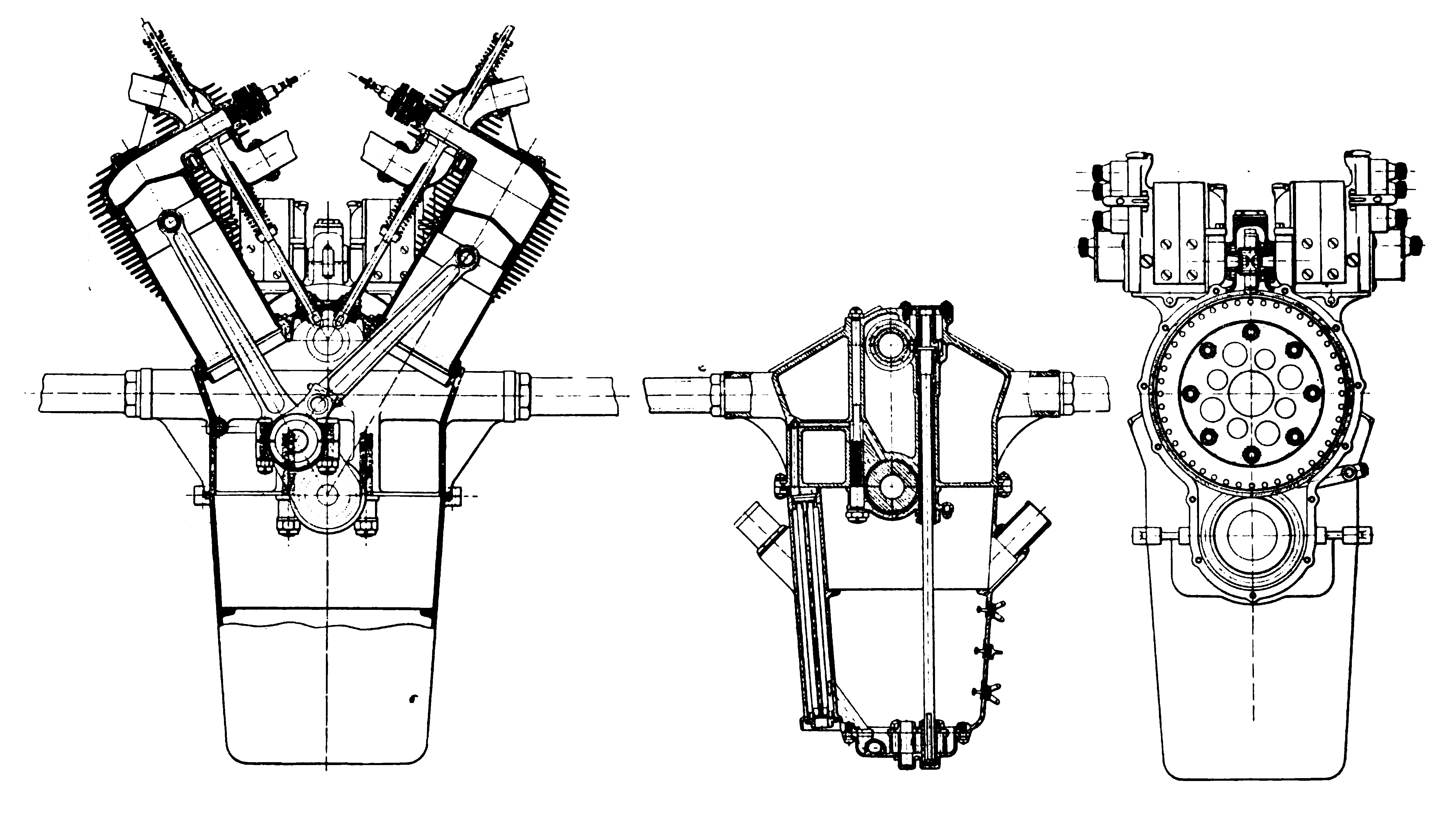 Renault V-12 engine, front view. While the accompanying text describes the 100 hp Renault V-12 engine from 1912, the bore/stroke ratio in this drawing suggests that this drawing may actually depict the preceding 90 hp Renault V-12 engine, which differed in the smaller bore size, having a bore of 90 mm and a stroke of 140 mm.